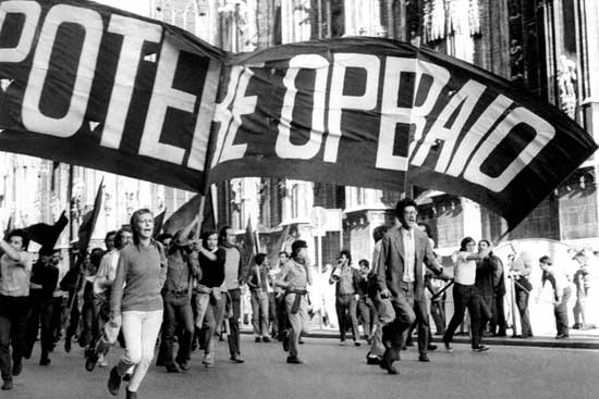 Potere Operaio Italy